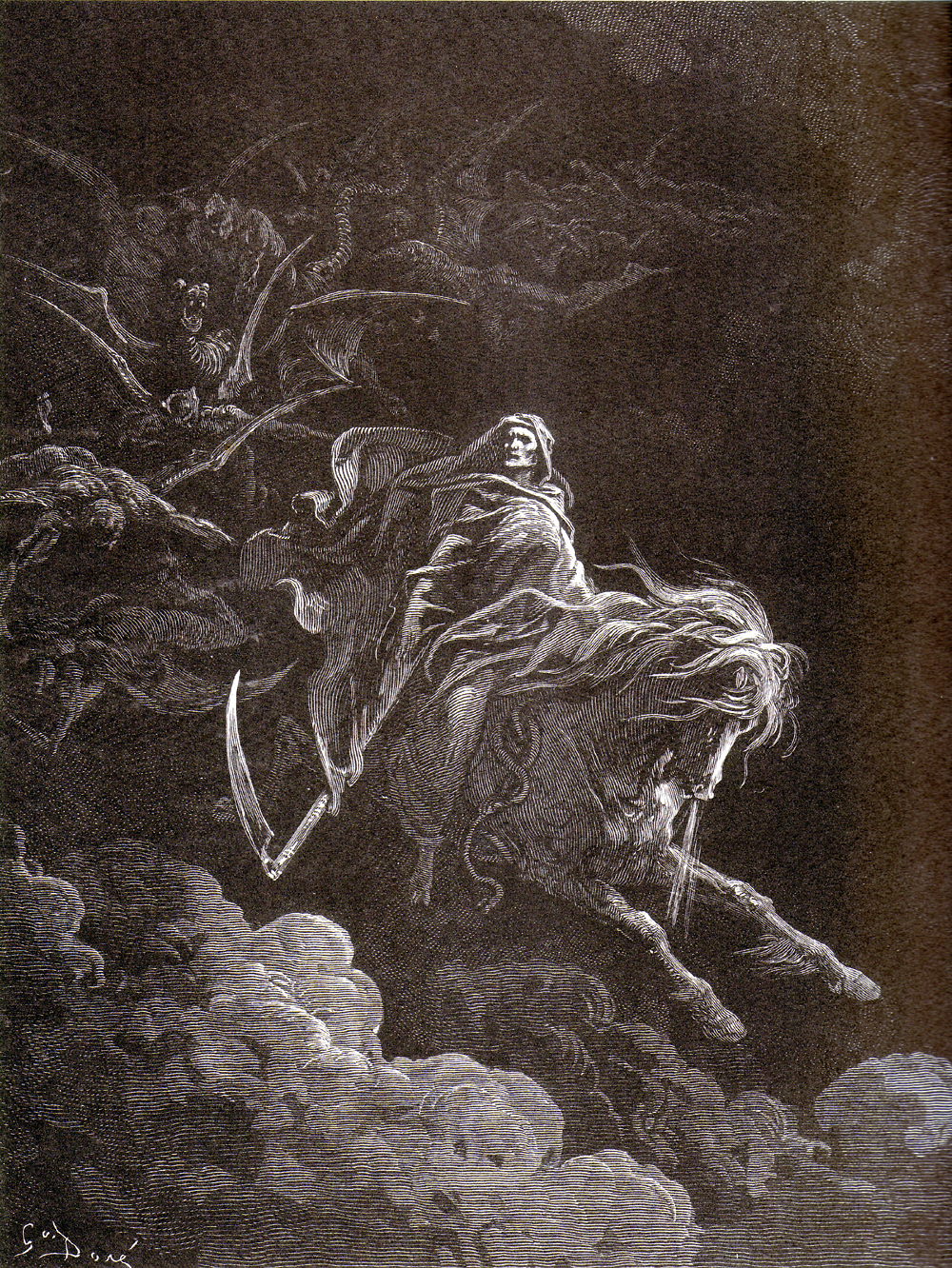 This work is linked to Revelation 6:8 "The Lamb of God opens the seven seals of a book "written within and on the backside". After the opening of the fourth seal, Death rides into the world. He is the fourth knight of the apocalypse. Hell follows him."